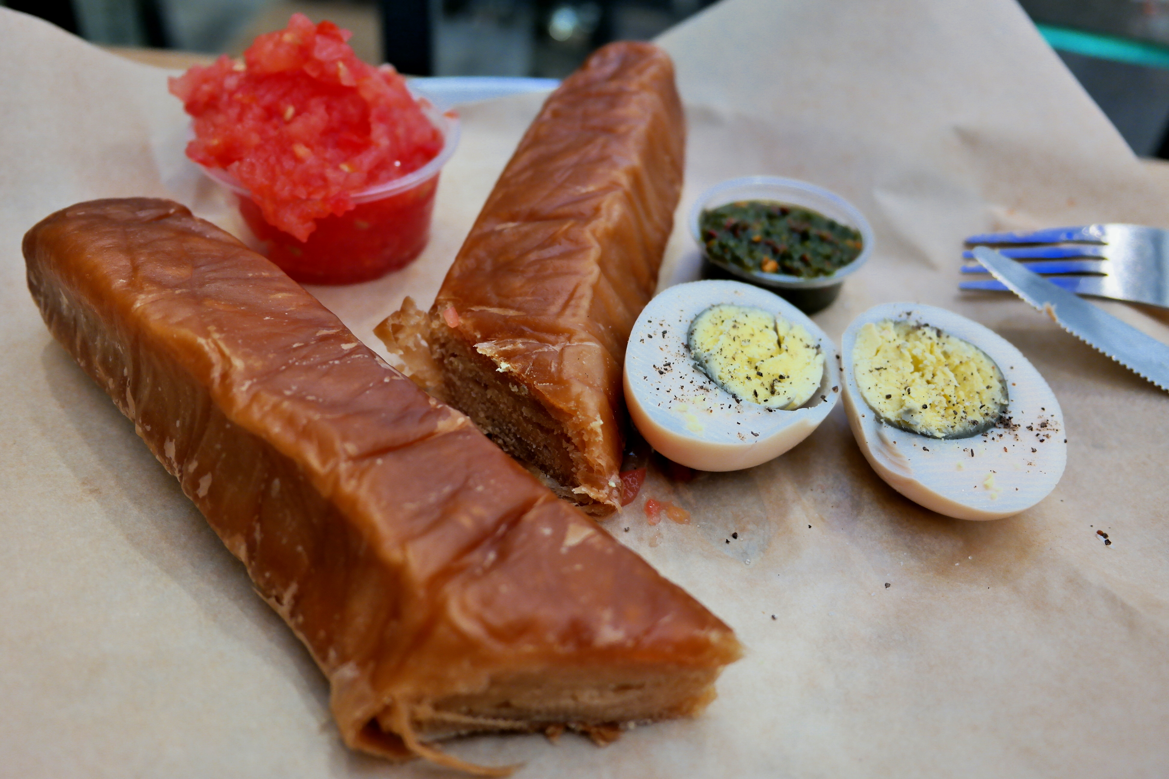 Jachnun served with freshly grated tomato, skhug (hot sauce made with chilli peppers, coriander, garlic, salt, cumin, black pepper, cardamom and ground cloves) and a hard-boiled egg seasoned with black pepper. Usually eaten by Yemenite Jews on Shabbat morning